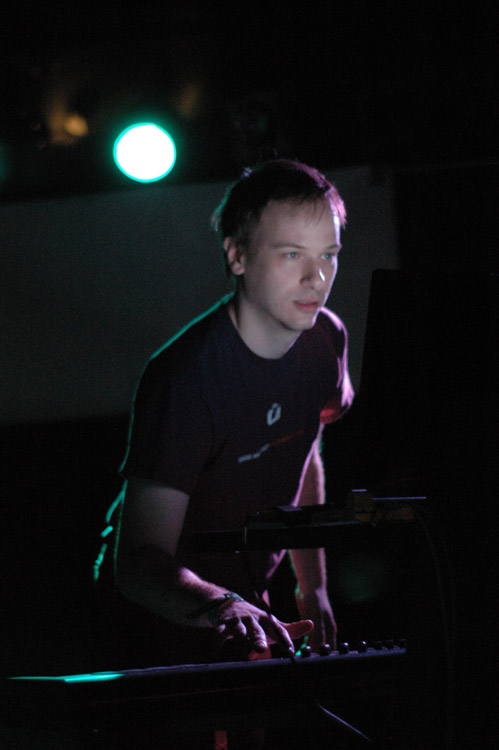 Andrew Gregory Sega, also known by the moniker Necros